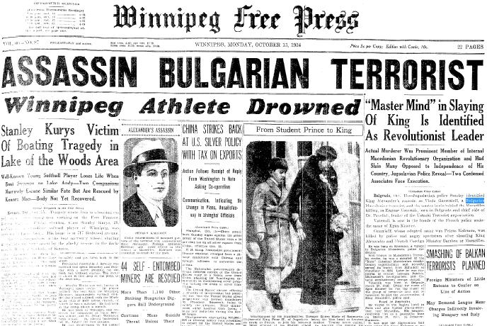 An article about the assassination of the Yugoslav king Alexander Karadjordjevich in Winnipeg Free Press